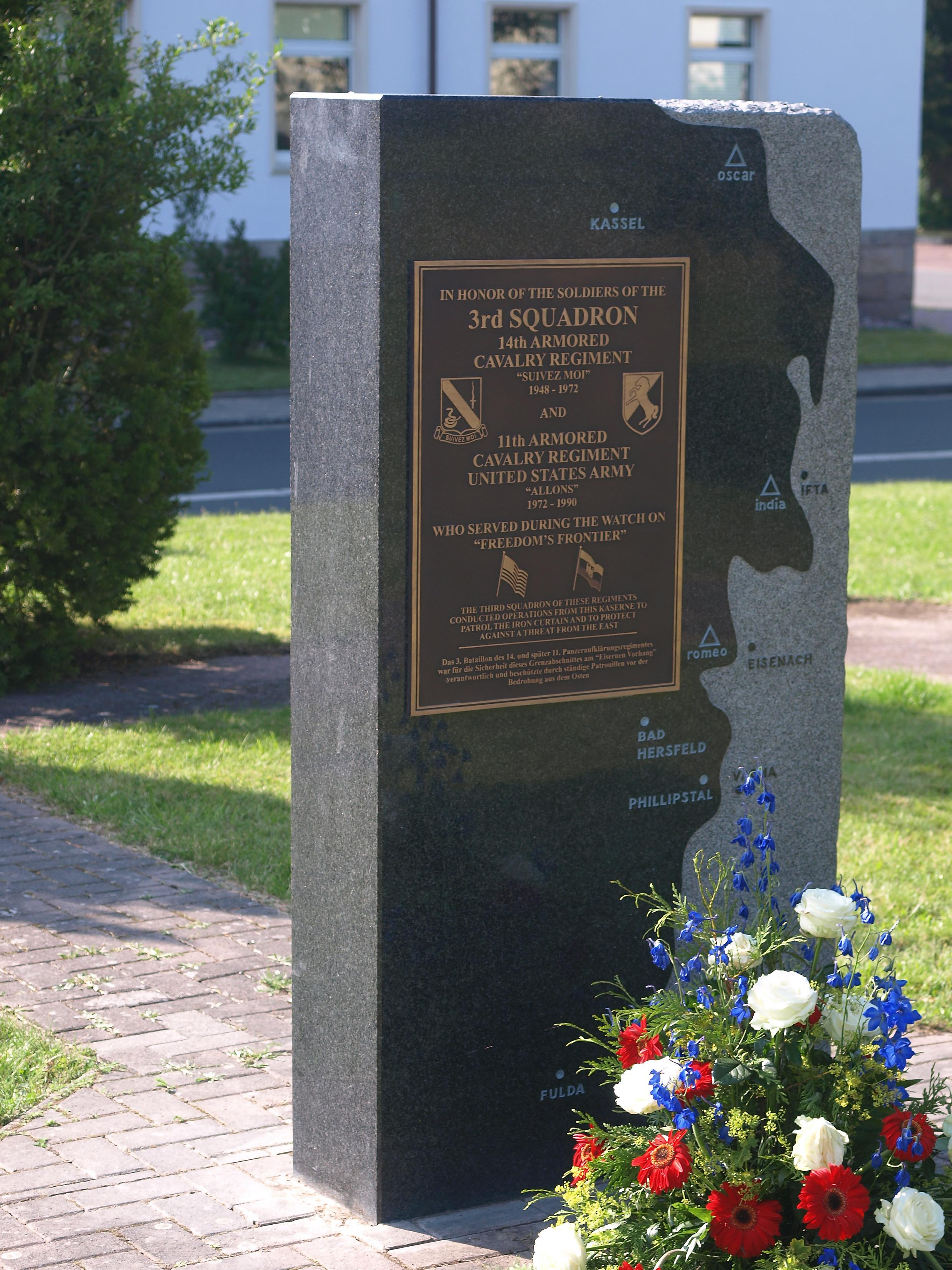 Memorial stone in the former McPheeters barracks in Bad Hersfeld (Hohe Luft). It was erected in honor of the soldiers of 3rd Squadron, 14th Armored Cavalry Regiment and the 11th Armored Cavalry Regiment who did their military service in Bad Hersfeld. The memorial stone was donated by US Veterans. The stone was unveiled by Hartmut H. Boehmer (mayor of Bad Hersfeld) and John Sherman Crow (Brigadier (retired) President of Blackhorse Association, a veteran organization) on 24 June 2009.